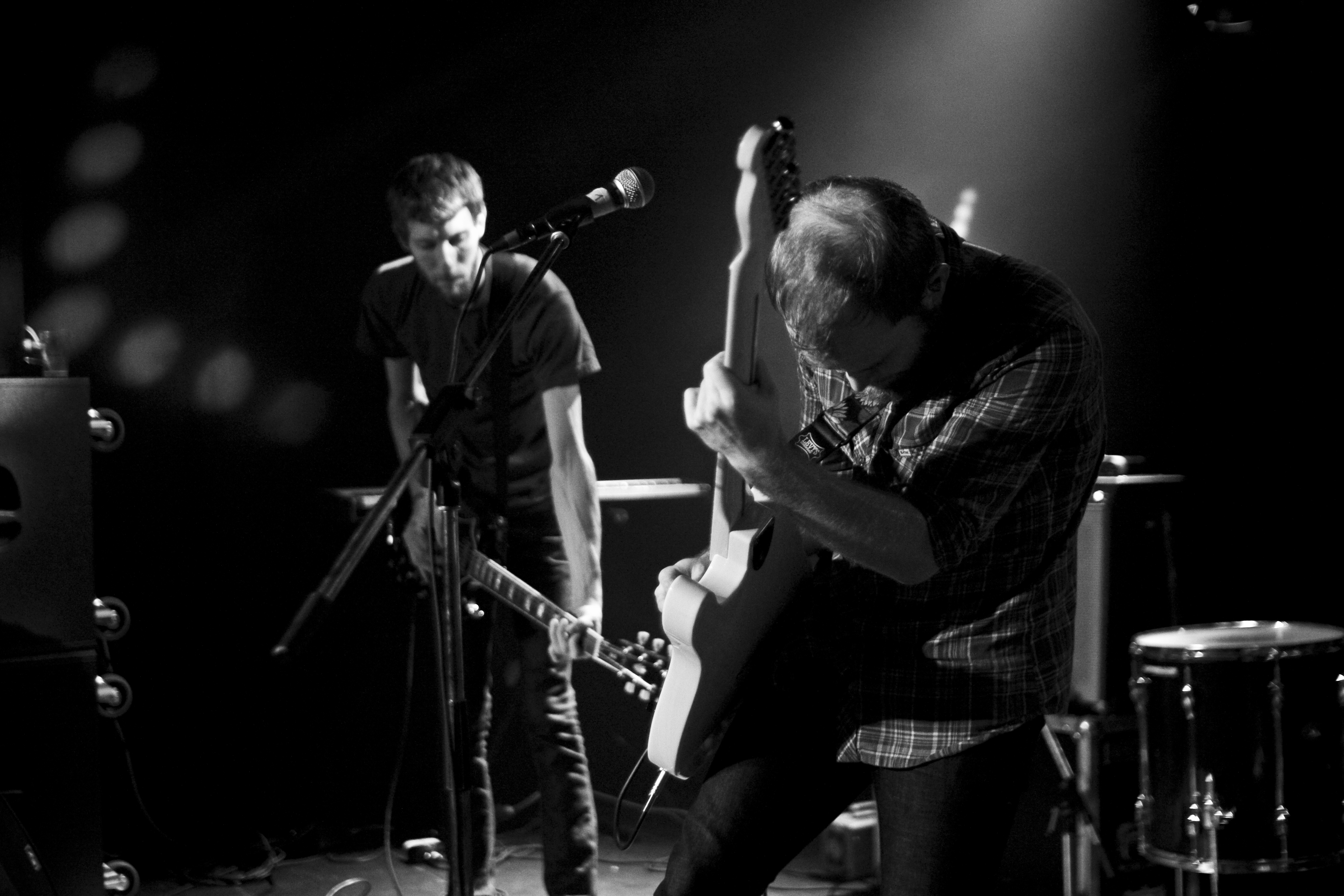 Pompeii performing live in Antwerp, Belgium.